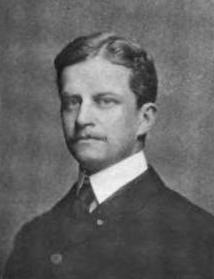 Portrait of New York assemblyman Edward R. Finch